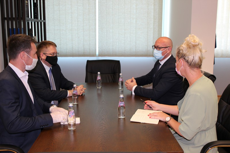 Goran Rakić and Brittish Ambassador to Kosovo, Nicholas Abbott